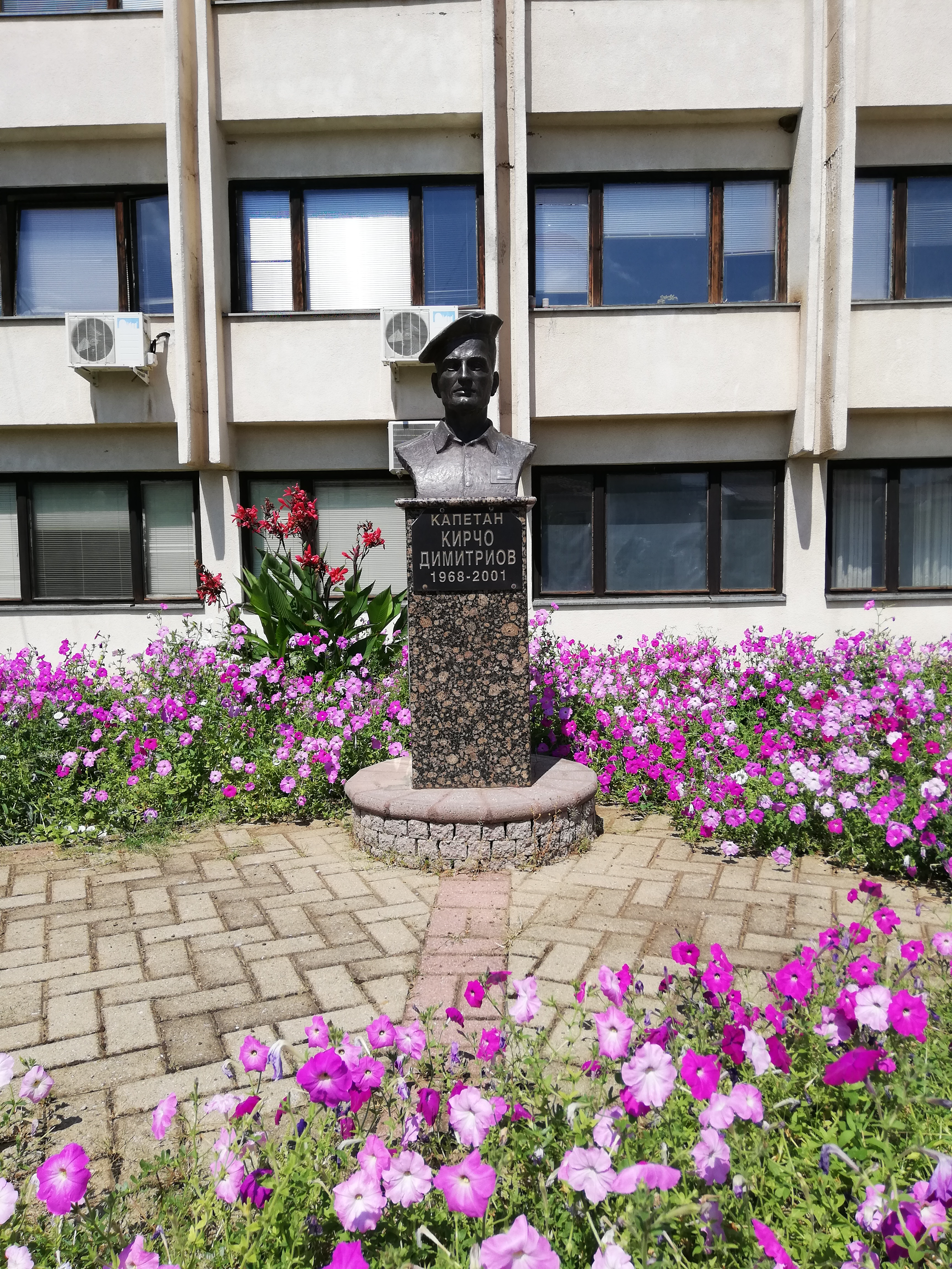 Wiki city tour in Kocani